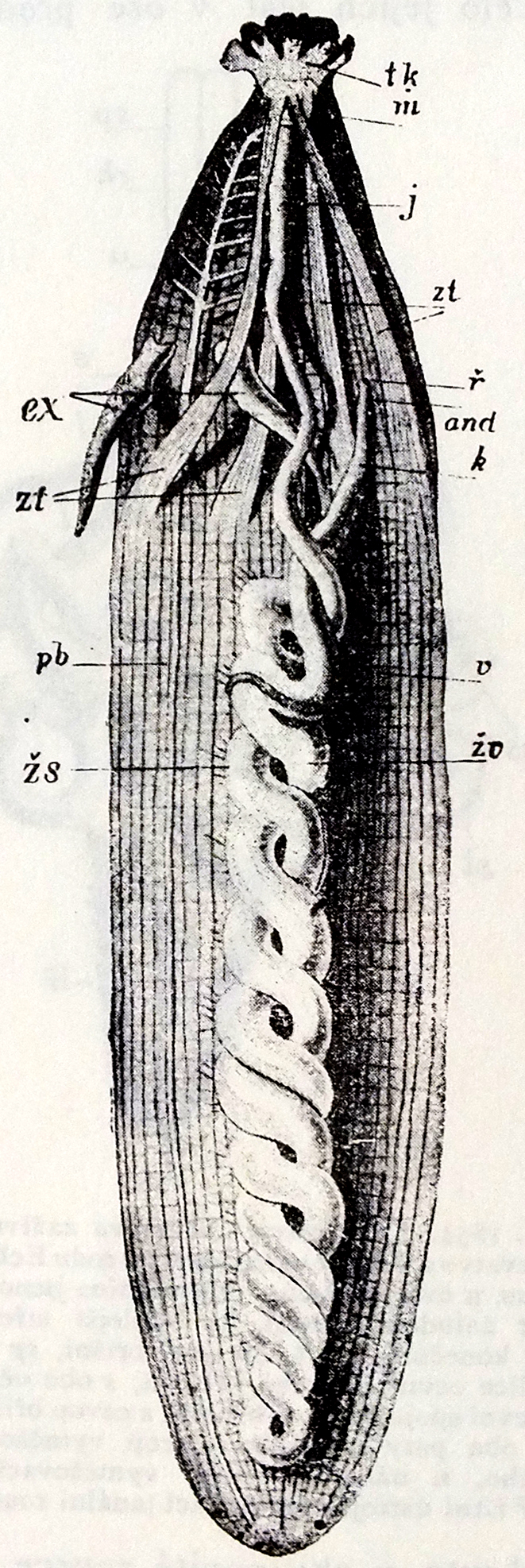 Body cavity of the genus Sipunculus, as pictured in Otto's Encyclopedia (Ottův slovník naučný, 1897).